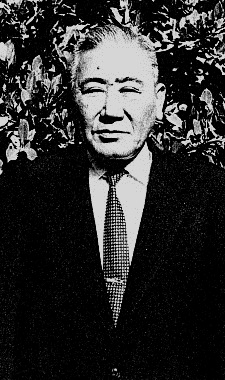 Tatsubin Yogi